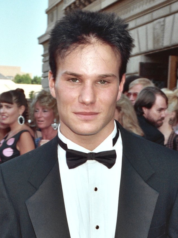 American actor James Marshall at the 1990 Emmy Awards